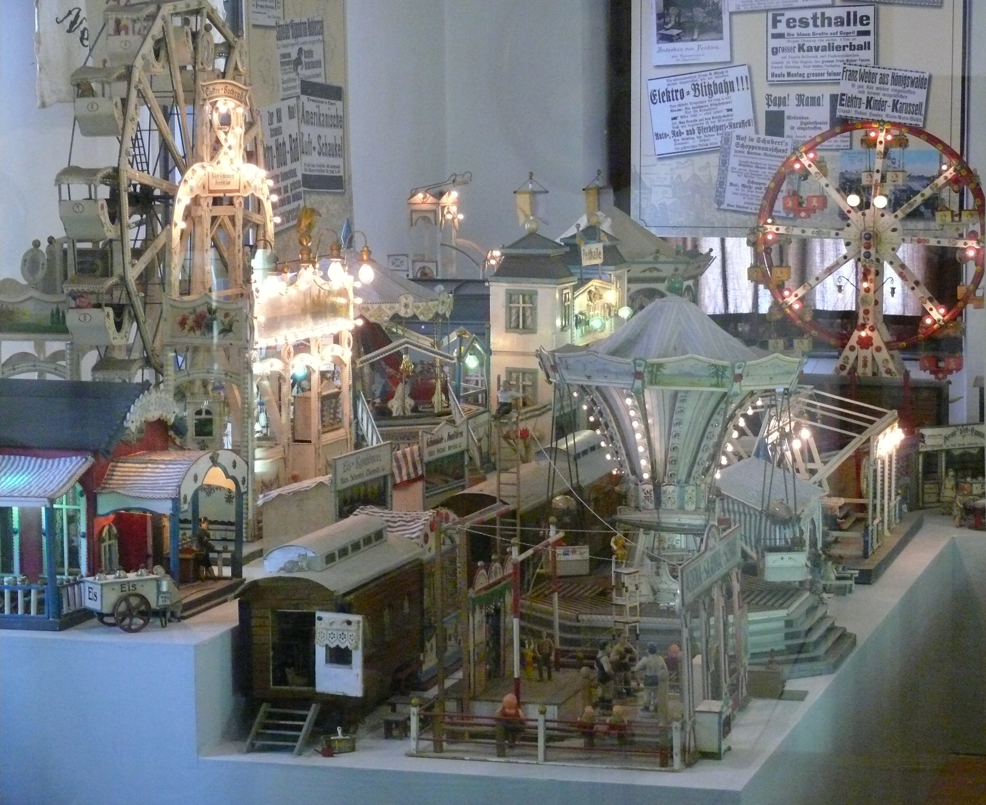 Scale models of rides at the Annaberger Kät.